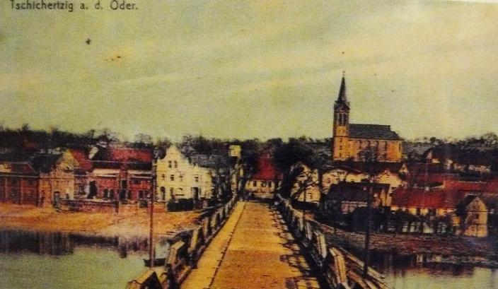 Cigacice (PL) - church.